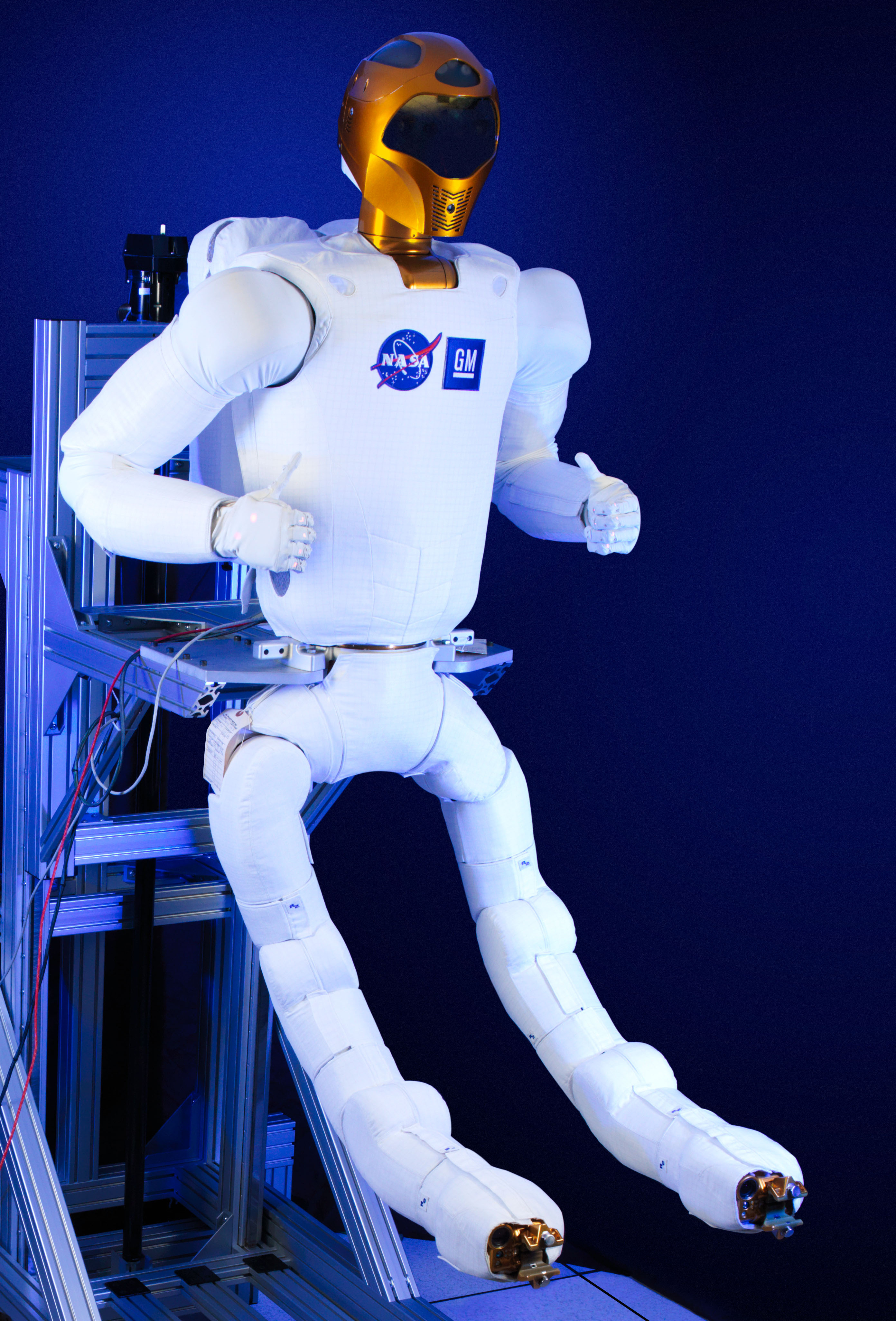 NASA’s Robonaut 2 with the newly developed climbing legs, designed to give the robot mobility in zero gravity. With legs, R2 will be able to assist astronauts with both hands while keeping at least one leg anchored to the station structure at all times. ID: jsc2013e093330